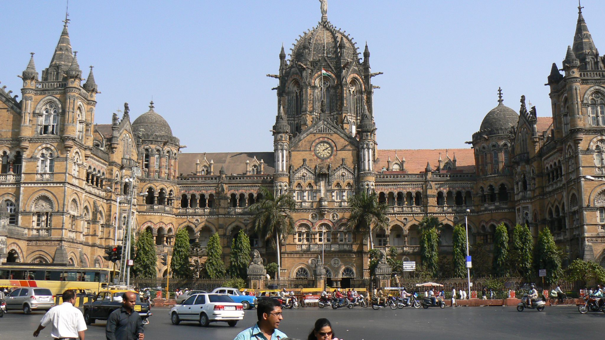 Victoria Terminus Railway Station, Mumbai, India